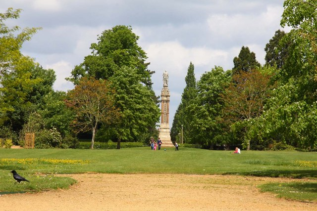 Prince Albert Mounument in Albert Park, Abingdon, Oxfordshire, seen from the south